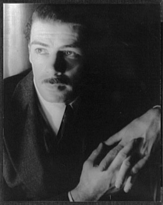 Transwiki approved by: User:Dmcdevit. This image was copied from en. The original description was: Paul Muni photographed by Carl Van Vechten, 1932 Dec. 9.